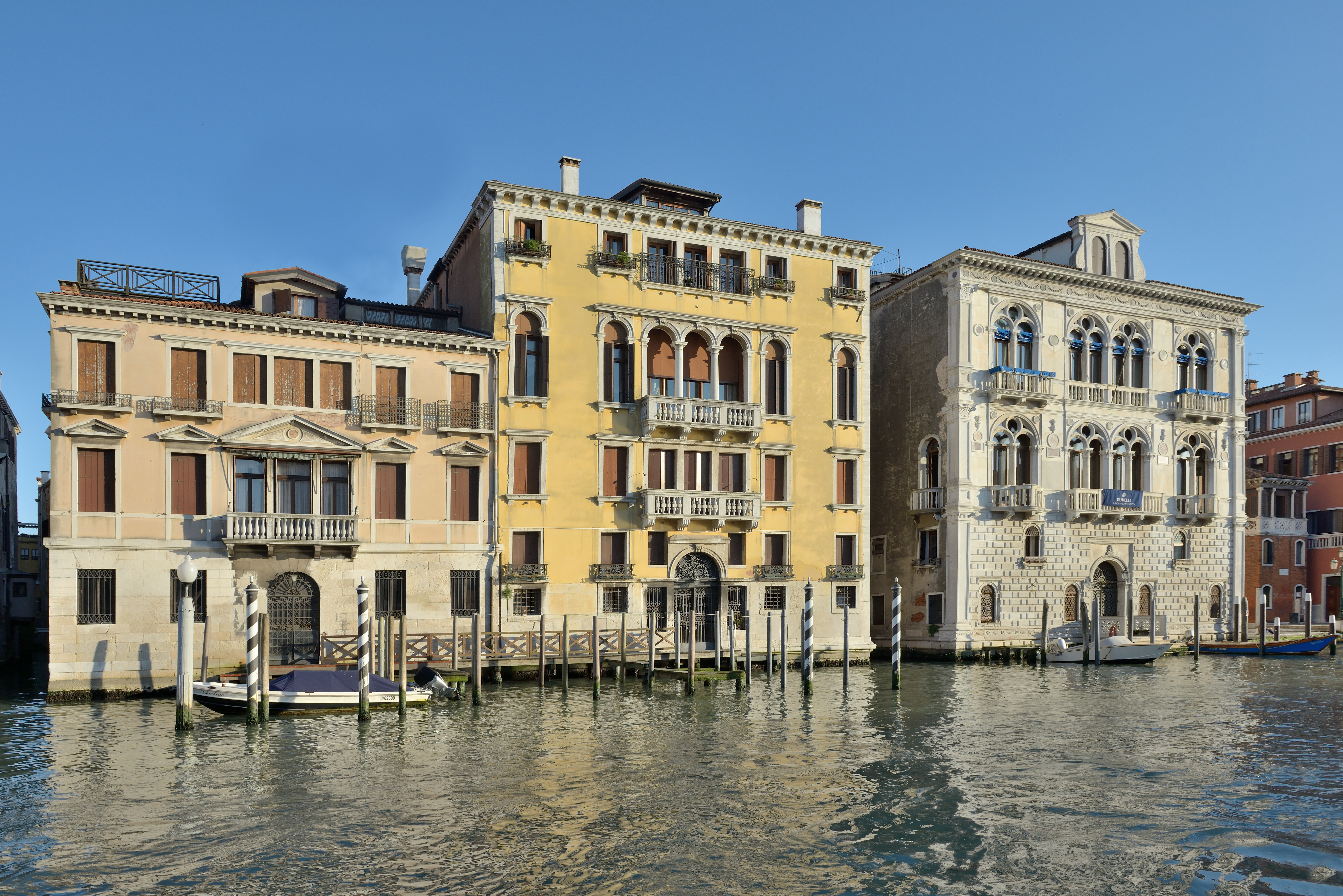 Palaces Ca' Michiel, Curti Valmarana, and Corner Spinelli in Venice. Facade on Grand Canal.